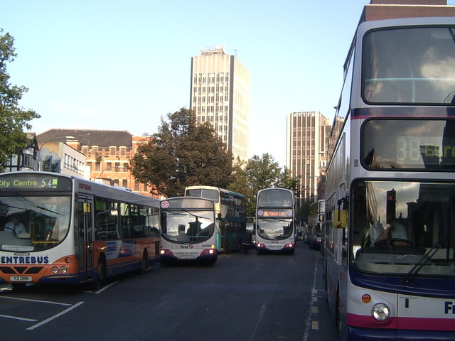 Need A Bus? Humberstone Gate, Leicester The most notable coverage of some of the parts of this Leicester street was in the Adrian Mole series in the mid 1980s.